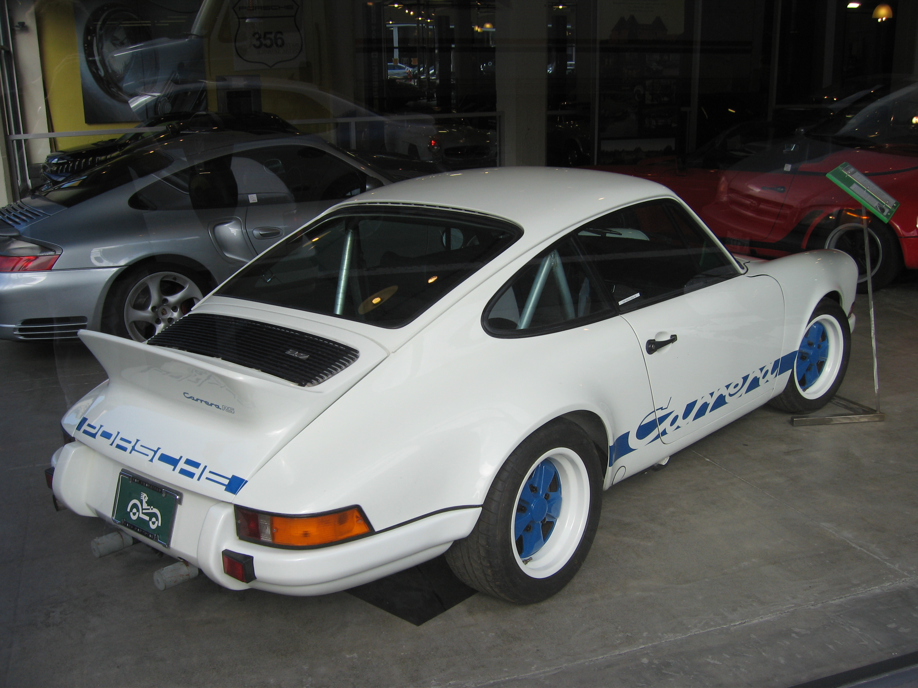 Porsche Carrera RS white - blue..Porsche 911 Carrera RS 2.7 in white. blue and white rims..right side view. with exhaustPorsche Carrera RS